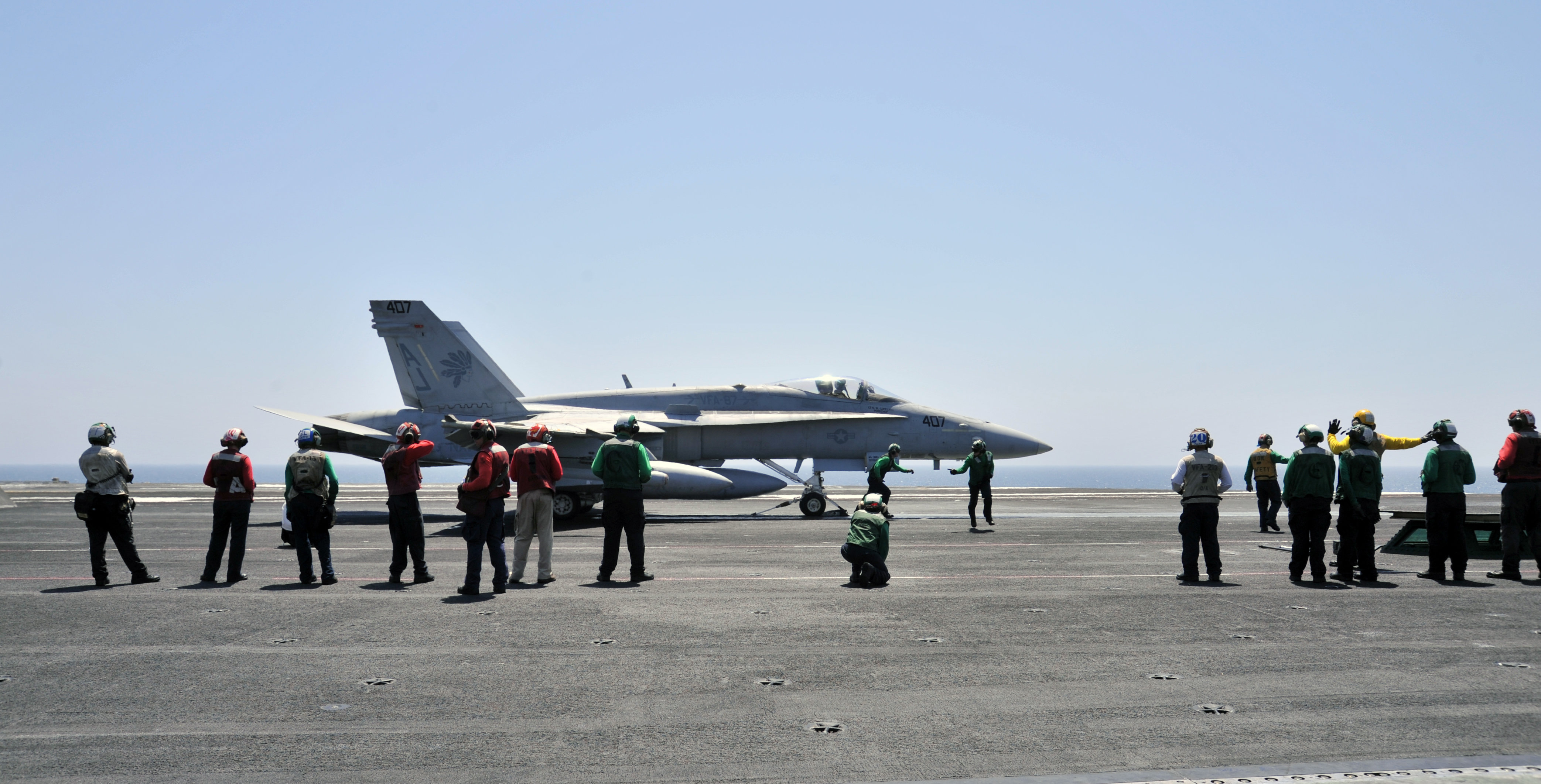 U.S. Navy sailors make final inspections on an F/A-18C Hornet assigned to the "Golden Warriors" of Strike Fighter Squadron (VFA) 87 aboard the aircraft carrier USS George H.W. Bush (CVN-77). George H.W. Bush was supporting maritime security operations and theater security cooperation efforts in the U.S. 5th Fleet area of responsibility.